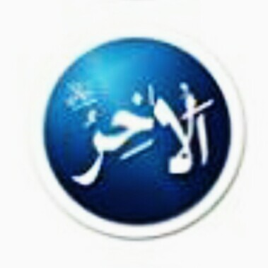 Al-'Akhir / The Last / The Endless is a name of God in Islam, is a name of Allah.